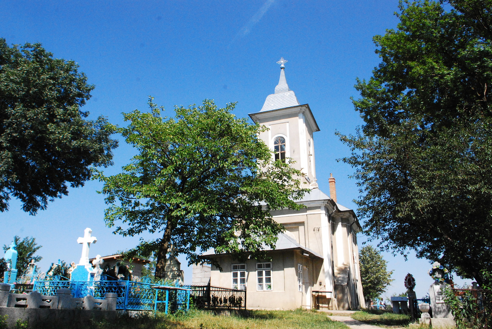 Saint Nicolas Church of Bacu